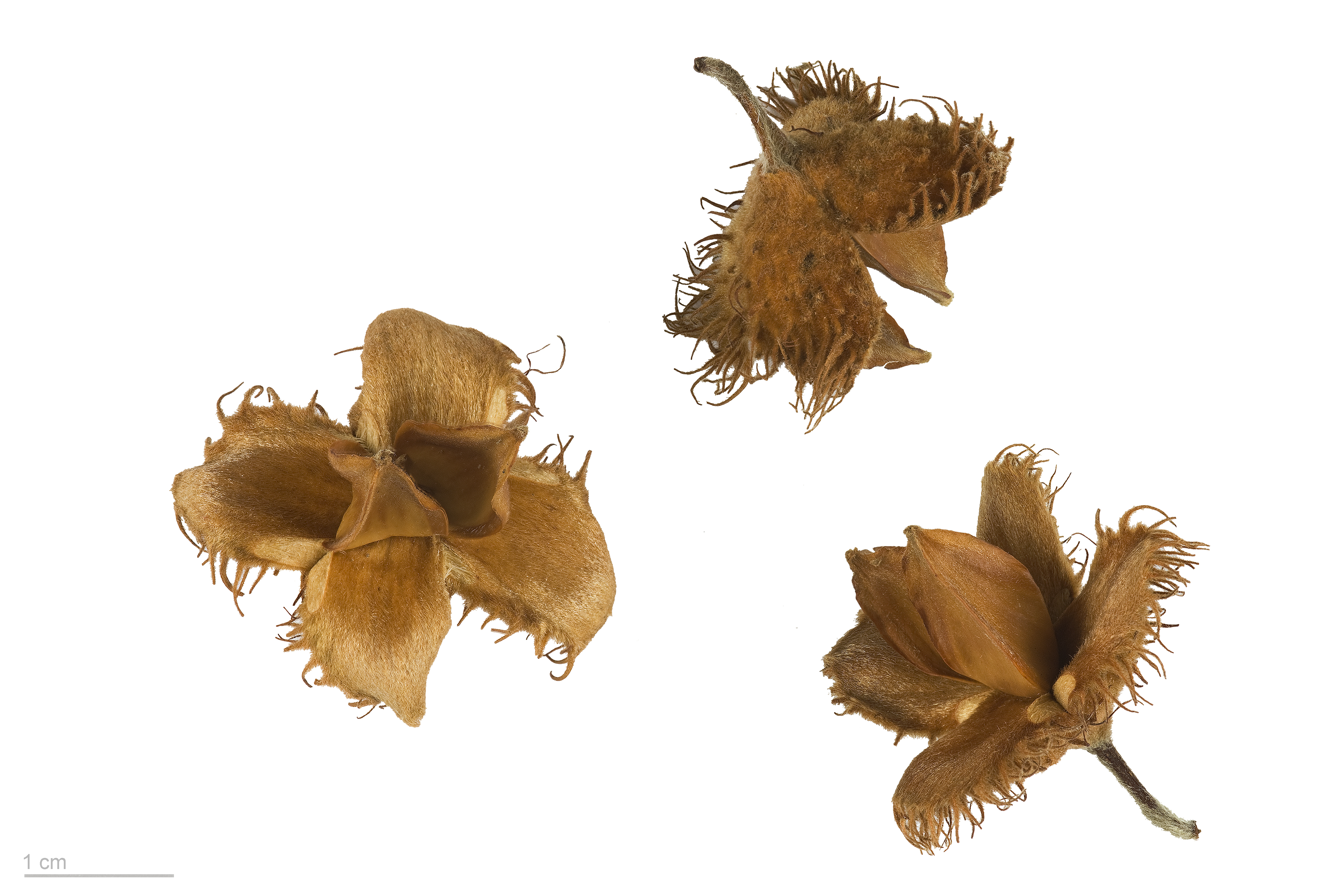 European beech , fruits and seeds